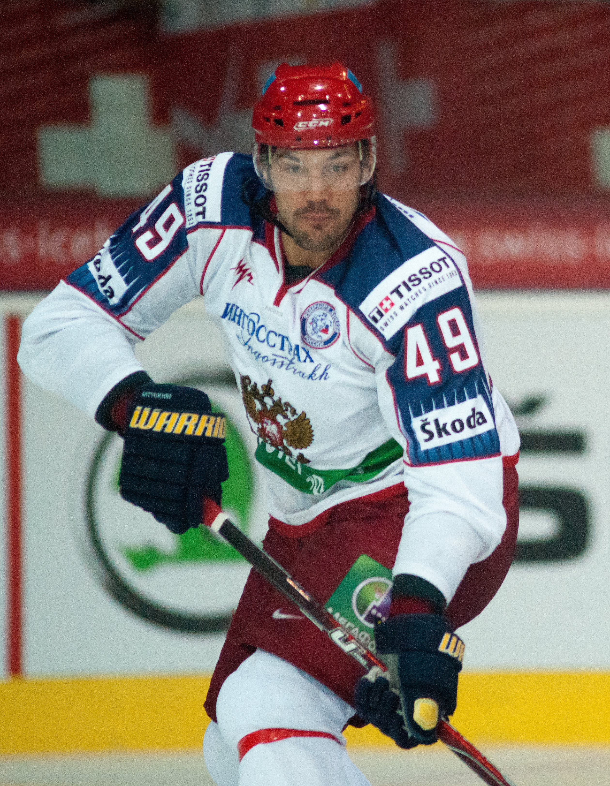 The making of this document was supported by Wikimedia CH. (Submit your project!) For all the files concerned, please see the category Supported by Wikimedia CH. Switzerland vs. Russia, 8th April 2011